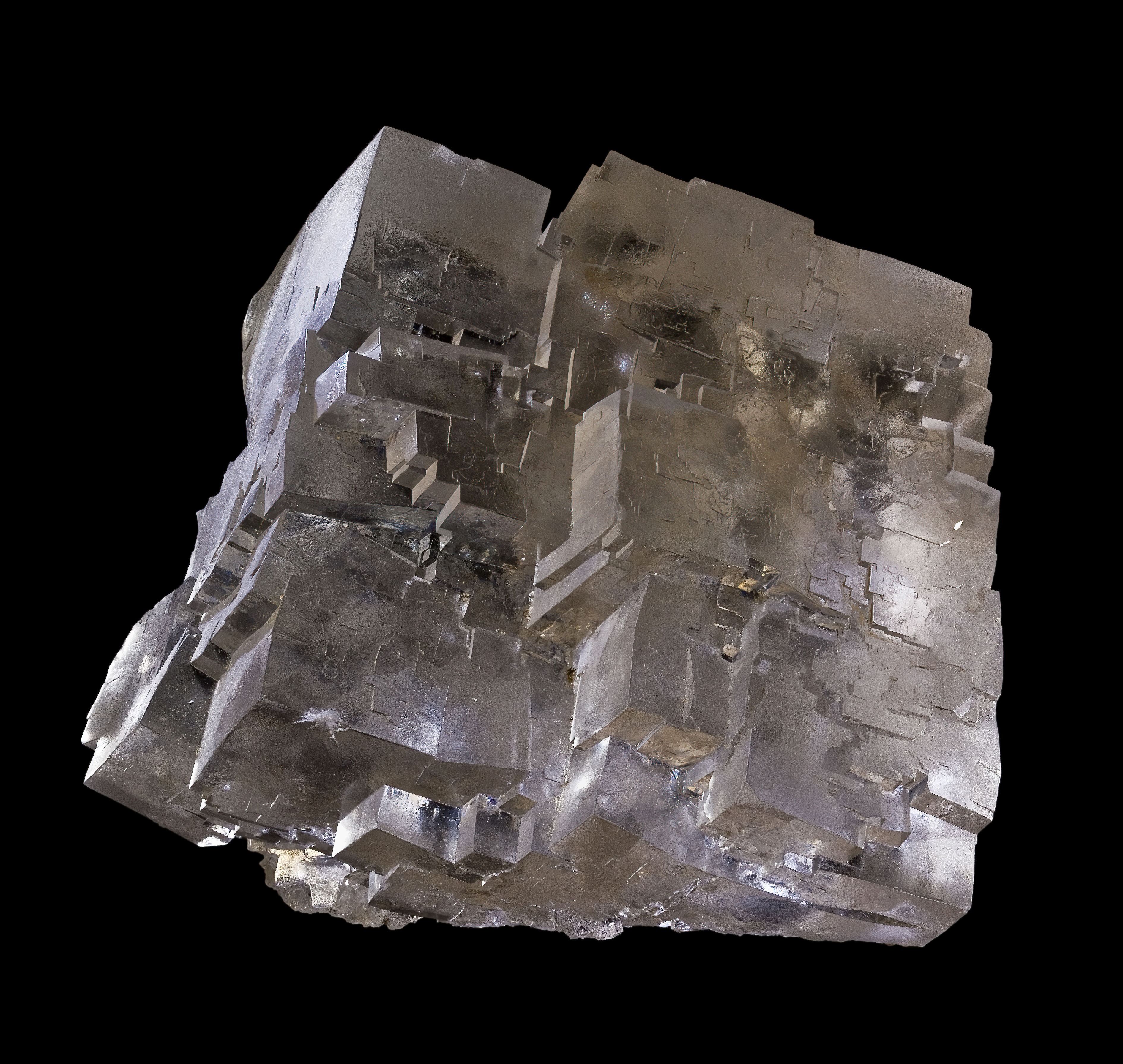 Halite Locality : Wieliczka Salt Mine, UNESCO World Heritage Site, Wieliczka, Małopolskie, Poland - Size : 16x15x13cm